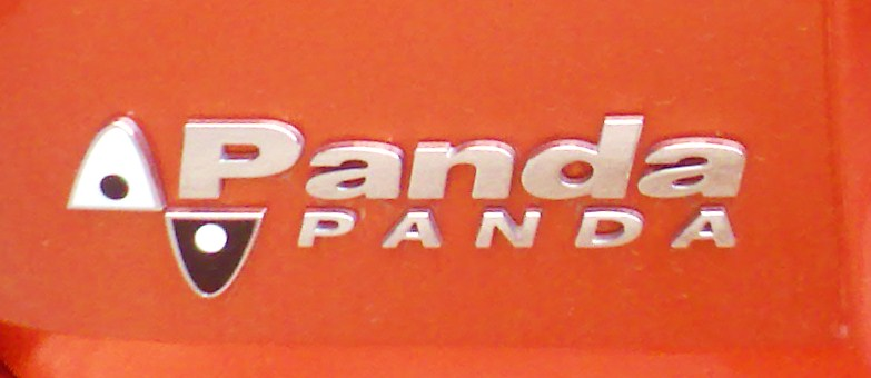 Fiat Panda Panda.